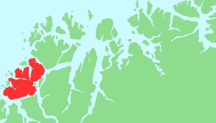 Locator map of Kvaløya, Troms, Norway